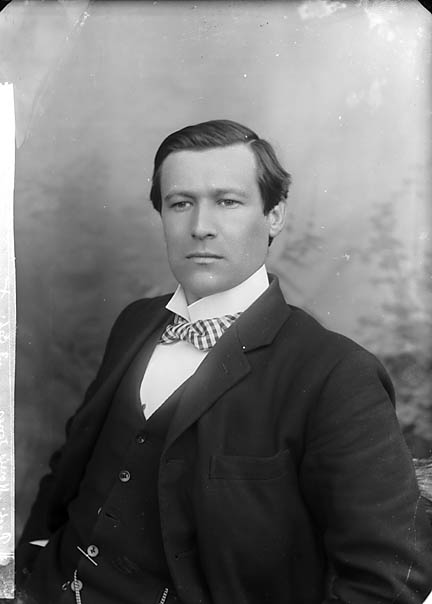 1 negative : glass, dry plate, b&w ; 16.5 x 12 cm.